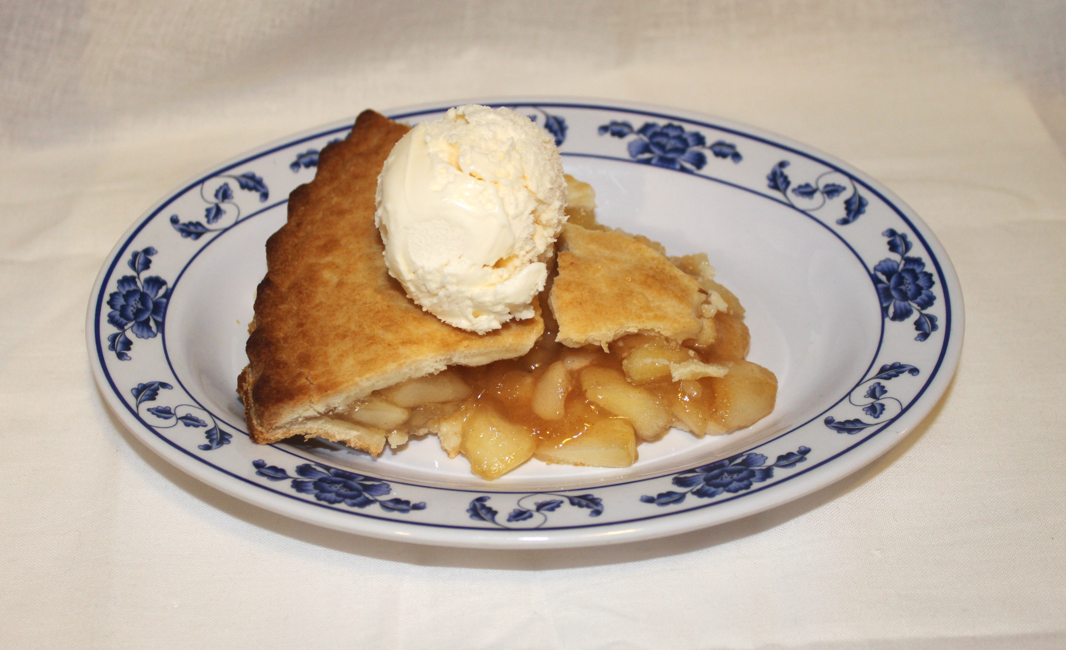 Apple pie à la mode.